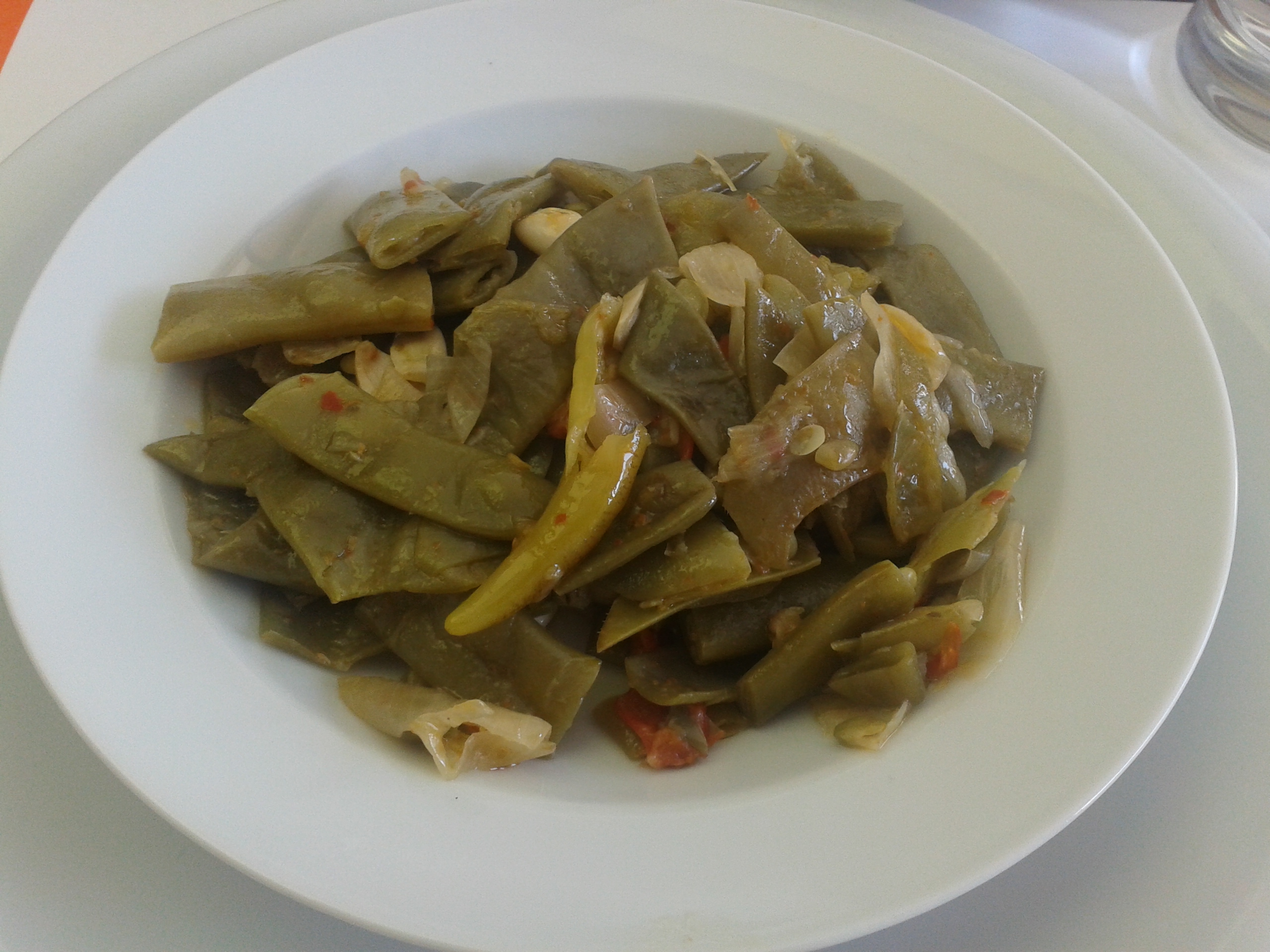 "Turşu kavurması" is a very typical dish from the Black Sea Region of Turkey, yet to be discovered by the rest of the country.